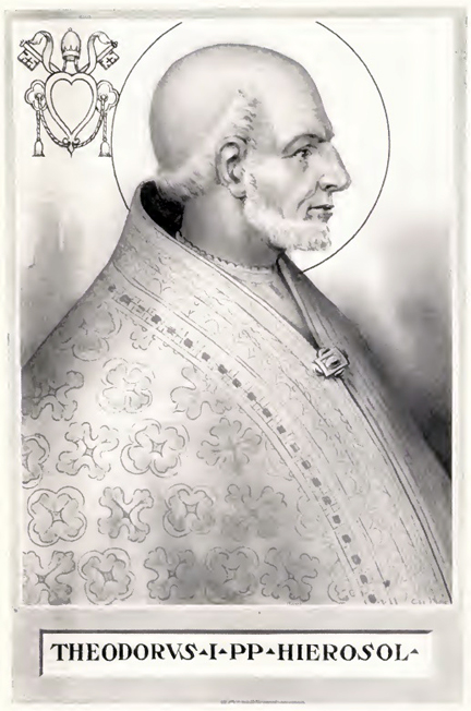 This illustration is from The Lives and Times of the Popes by Chevalier Artaud de Montor, New York: The Catholic Publication Society of America, 1911. It was originally published in 1842.